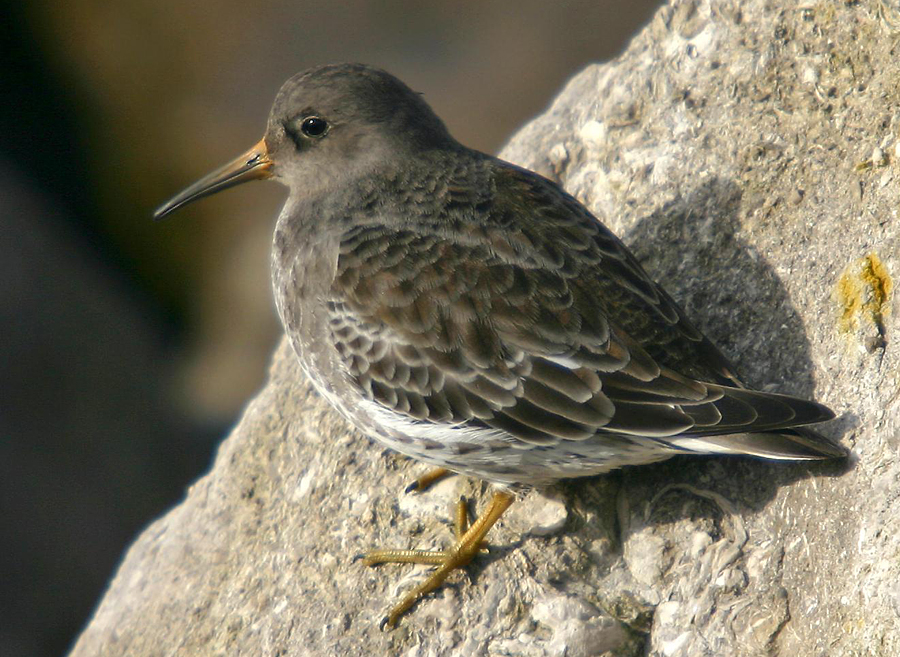 Purple sandpiper at New Brighton